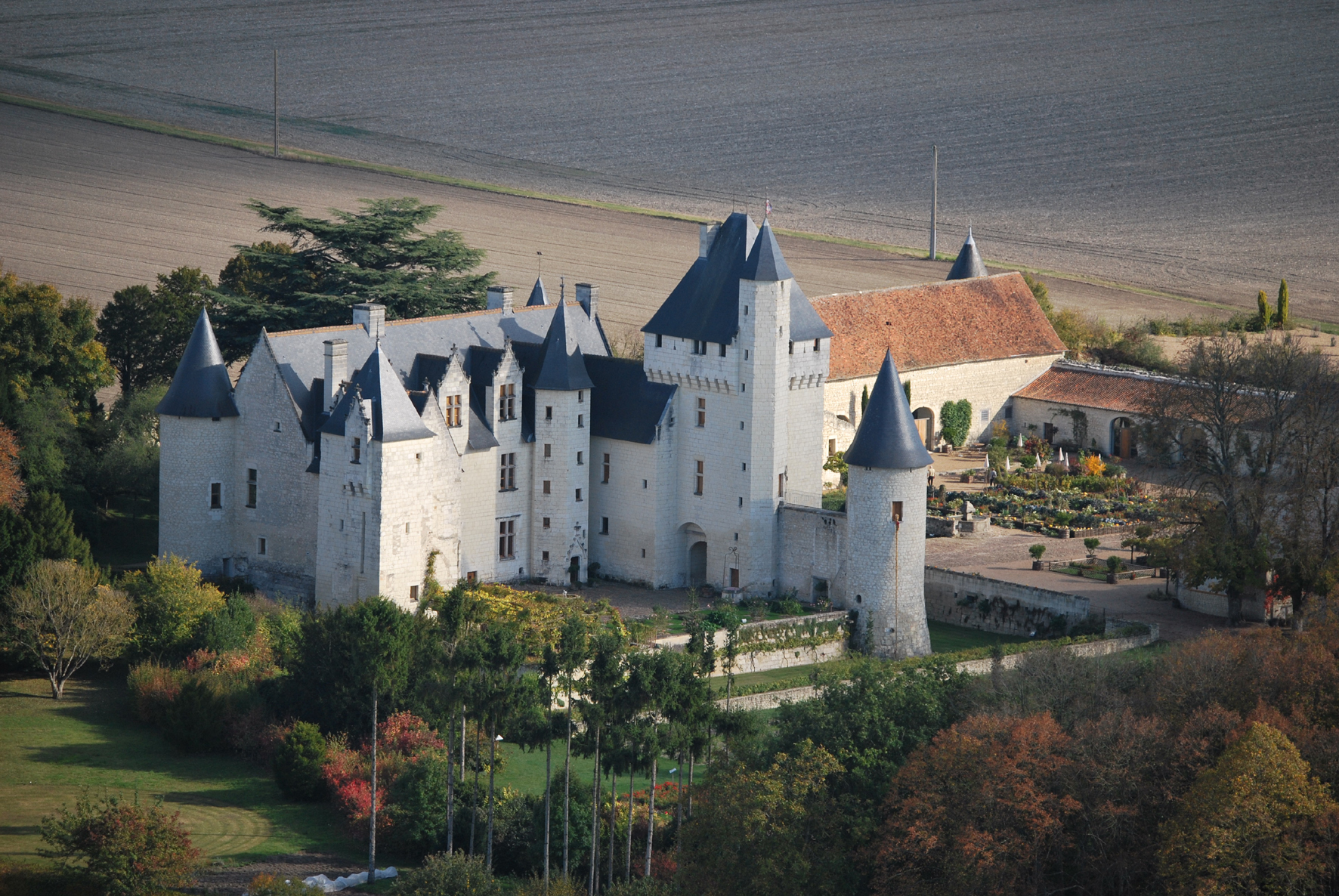 @Chapocou